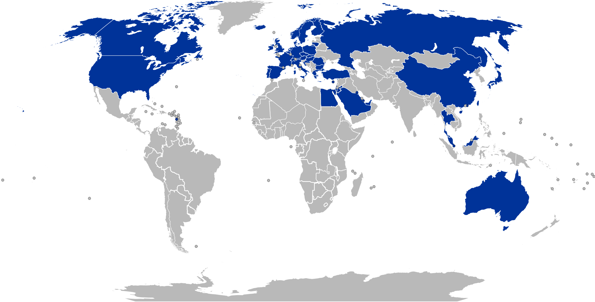 Added three countries